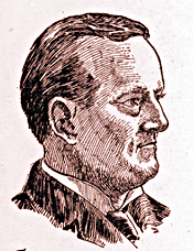 Fred J. Kern, US Representative from Illinois